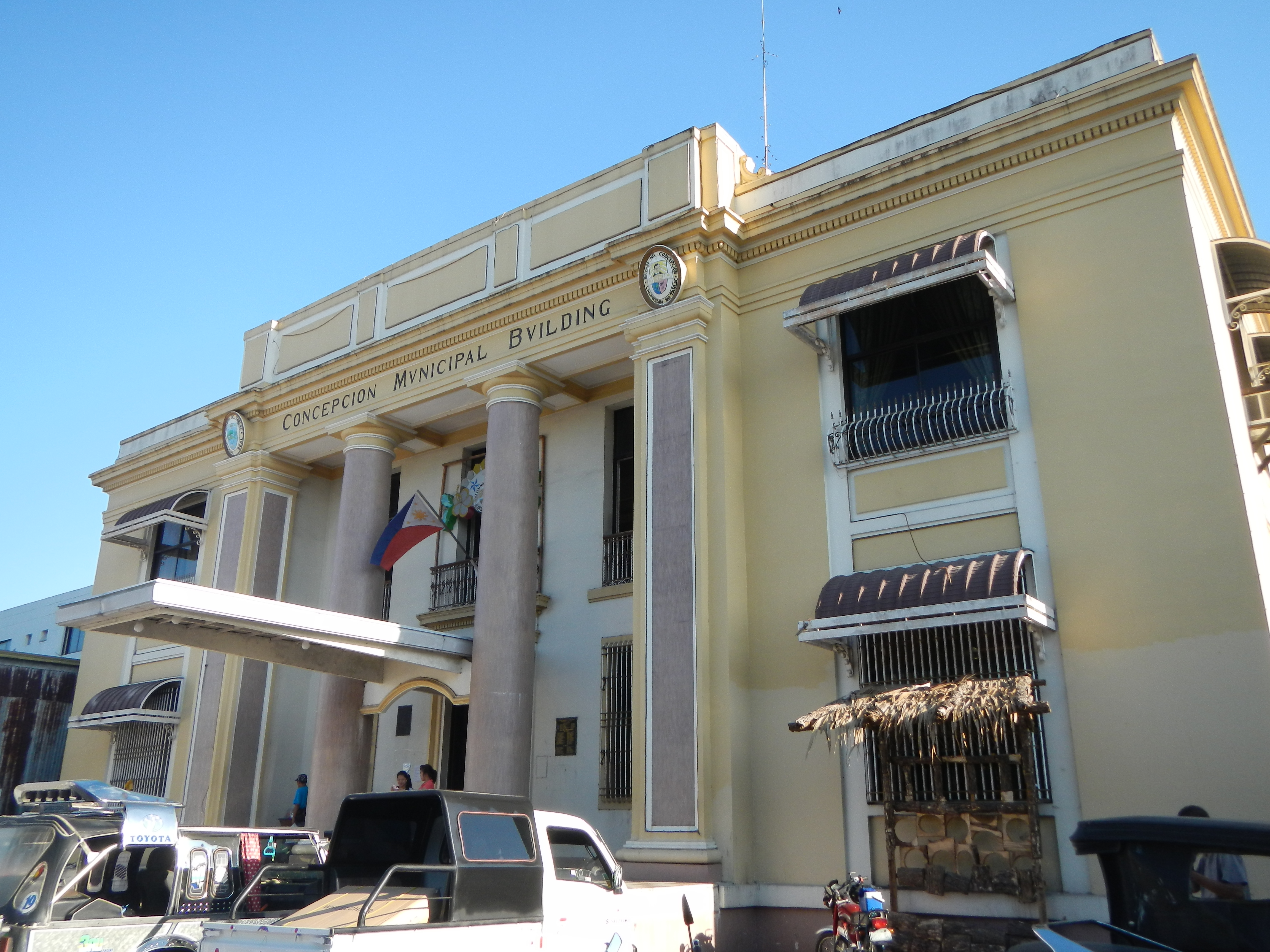 Concepcion, Tarlac[1] is a first class urban municipality in the province of Tarlac, Philippines; in the 2010 census, it has a population of 139,832 people. [2][3]Geographical coordinates are 15° 19' 31" North, 120° 39' 25" East and its original name (with diacritics) is Concepcion. [4][5]